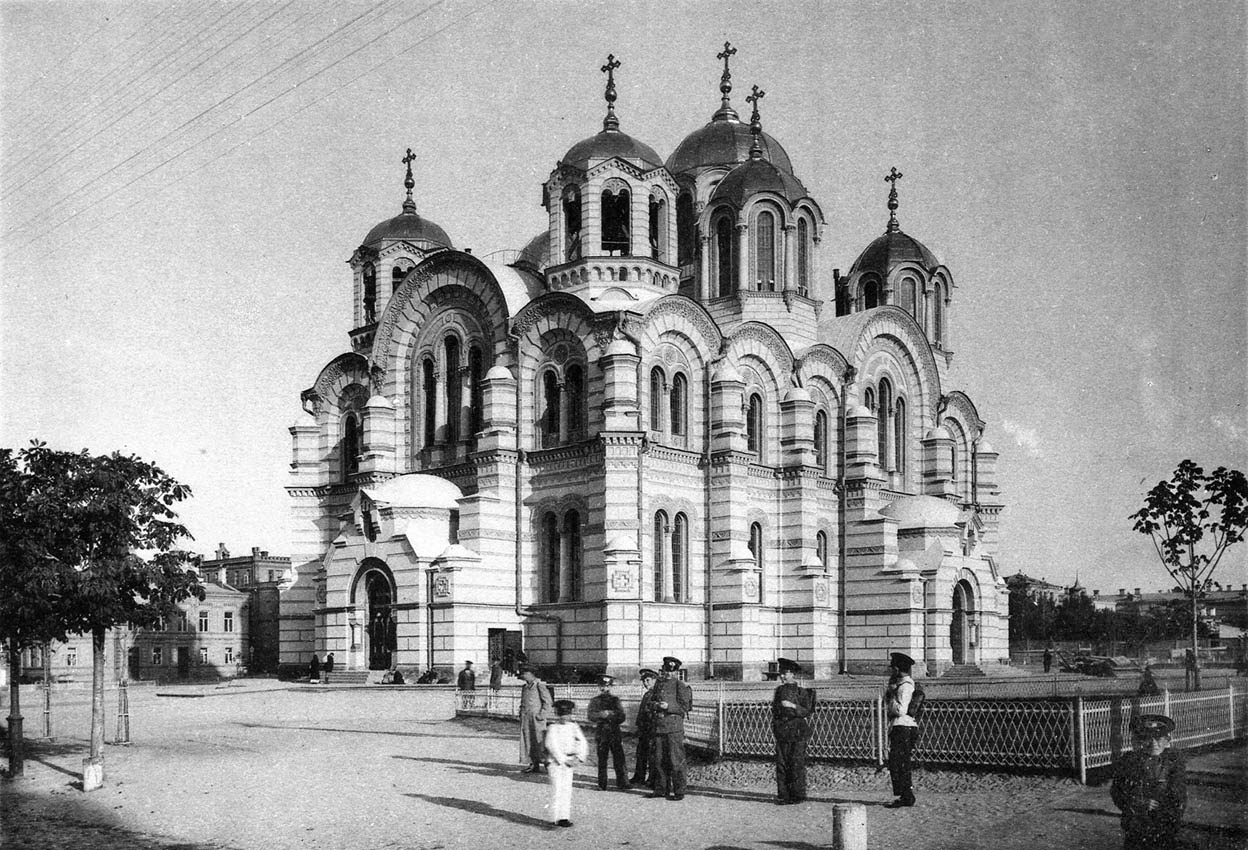 St. Vladimir Cathedral in Kiev, Russian Empire.